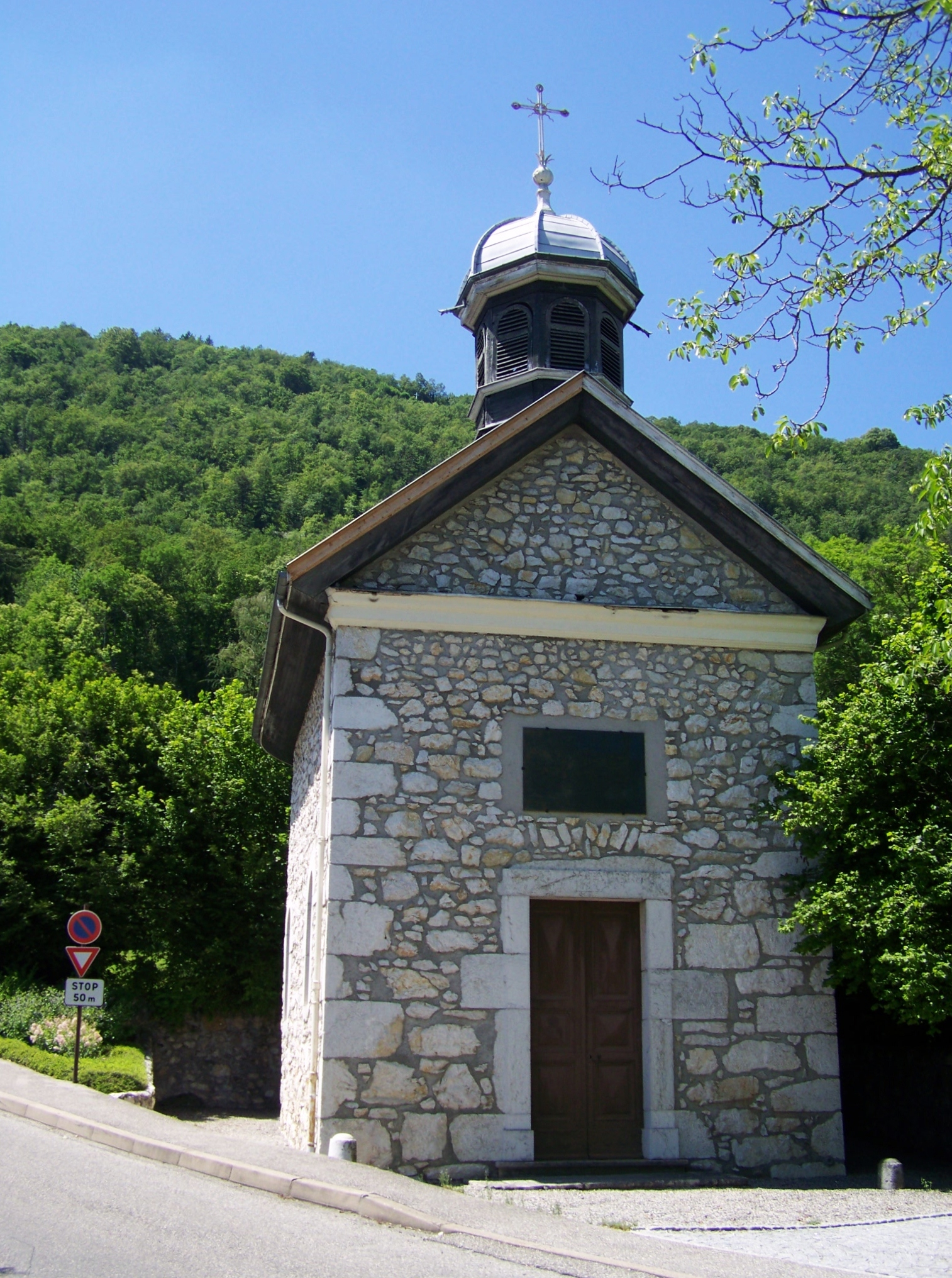 La chapelle de Létraz (1837) chapel, belonging to the French commune of Sevrier near Annecy in Haute-Savoie.